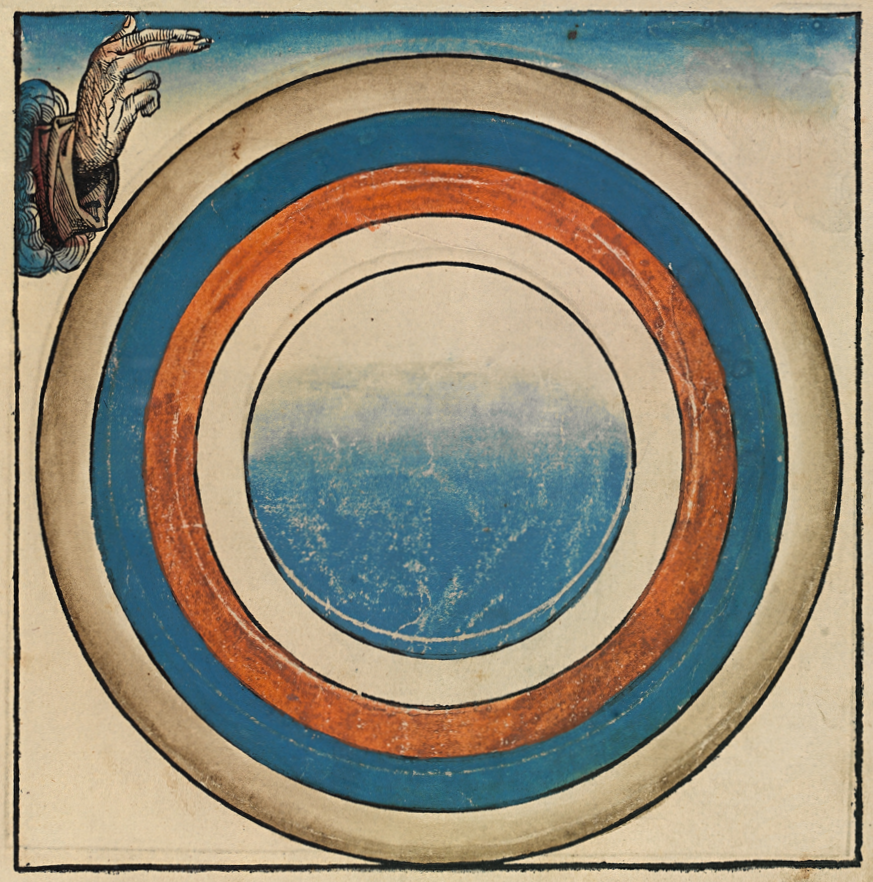 This is a part of a scan of an historical document: Title: Schedelsche Weltchronik or Nuremberg Chronicle